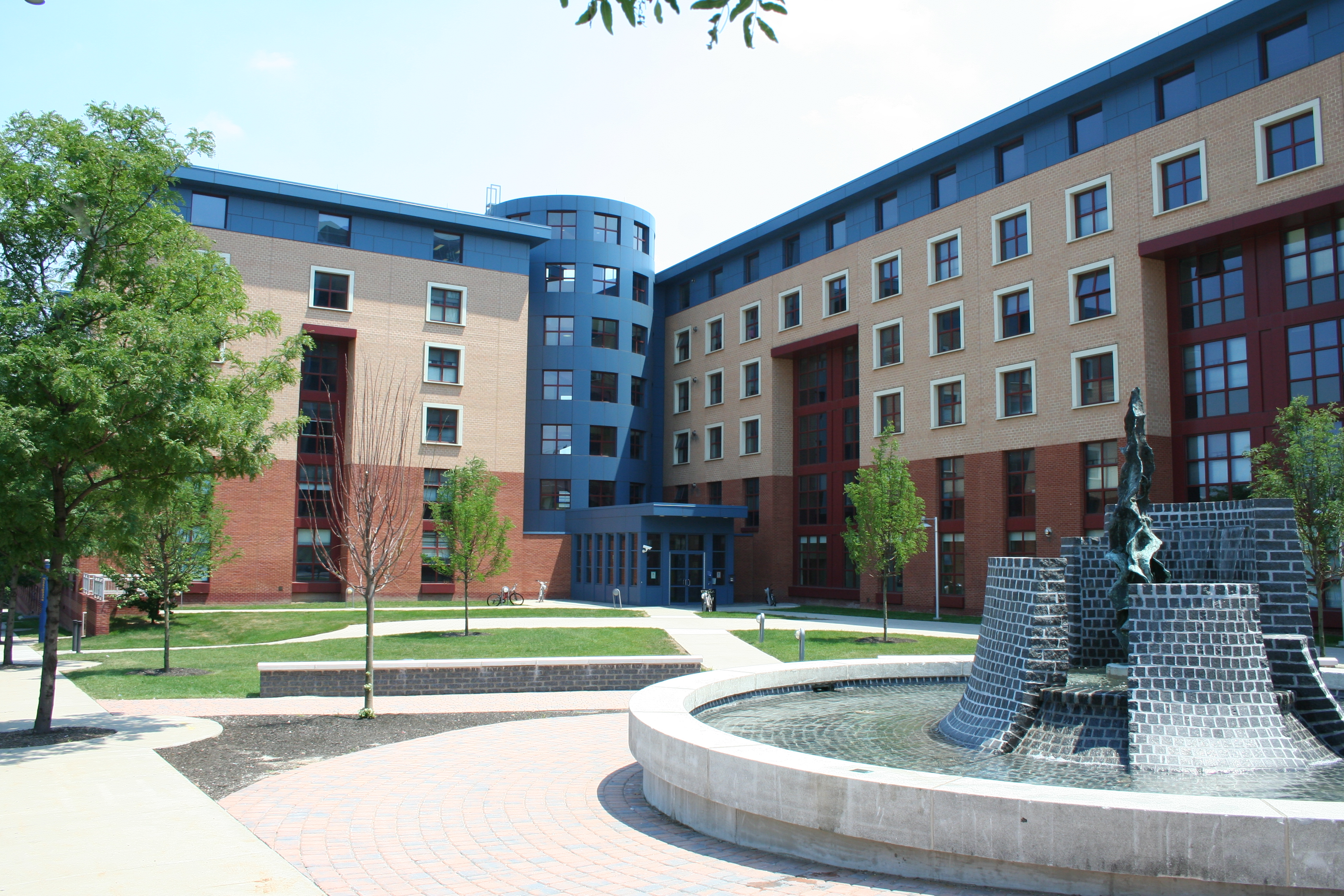 Drexel University's North Hall designed by architect Michael Graves in 2002.